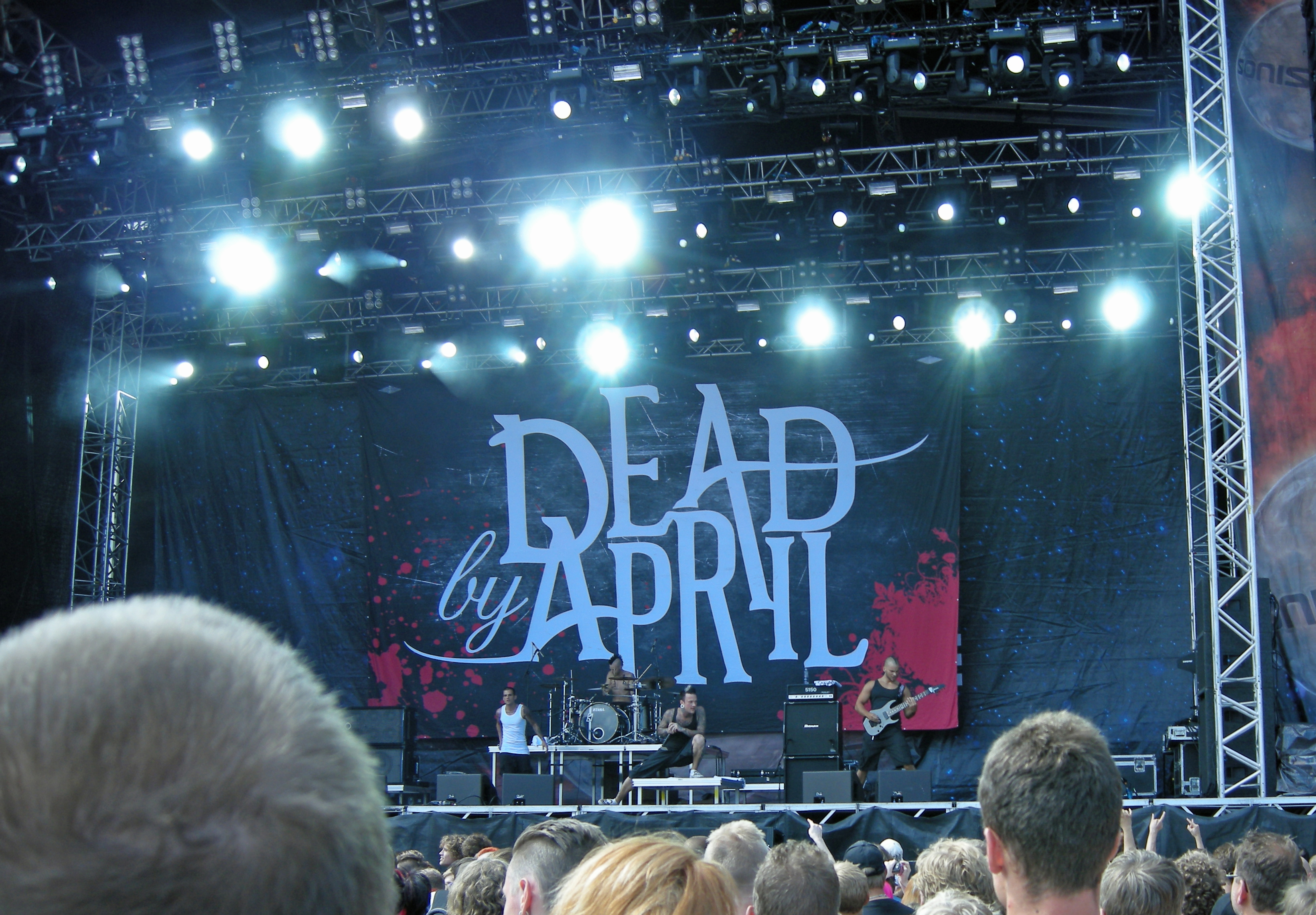 Swedish band Dead By April at Sonisphere Festival, Stockholm, Sweden 2011